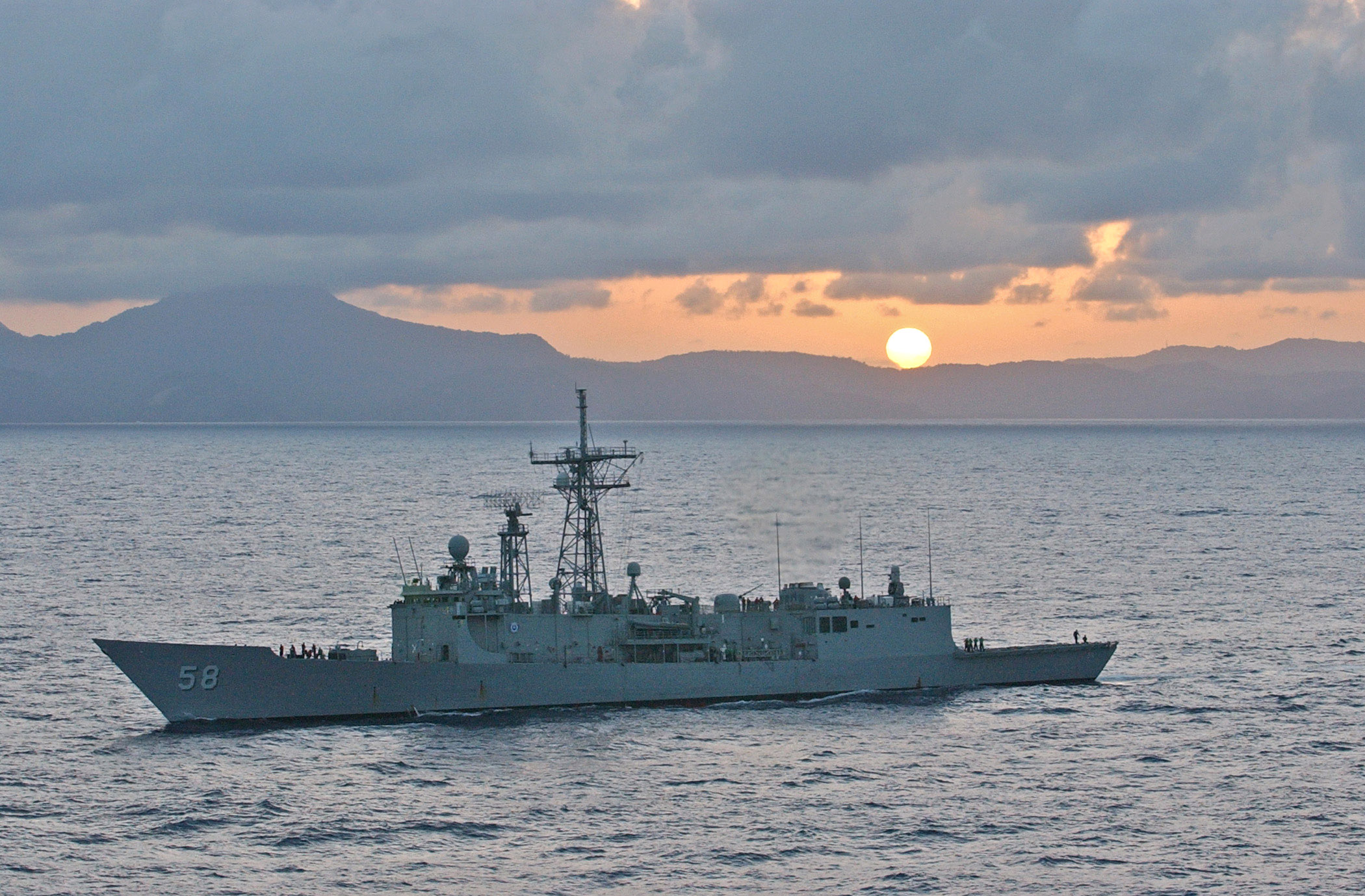 CARIBBEAN SEA (April 9, 2007) - The Oliver Hazard Perry-class frigate USS Samuel B. Roberts (FFG 58) sails in the Caribbean during a PHOTOEX. Roberts joined the Standing NATO Maritime Group One (SNMG1) for the day to work on training exercises and a PHOTOEX. U.S. Navy photo by Mass Communication Specialist Seaman Vincent J. Street (RELEASED)